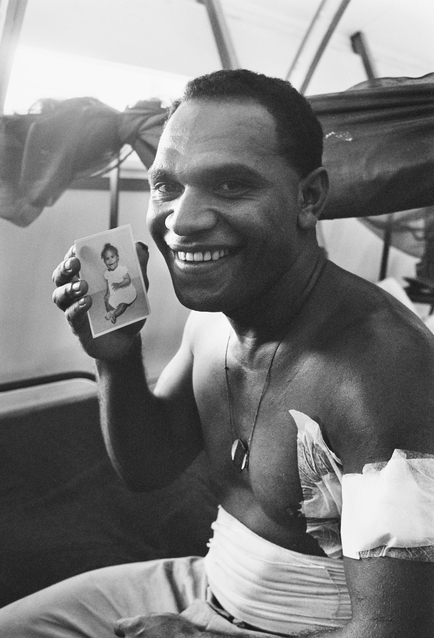 Vung Tau, Vietnam. 1966-08-26. 15989 Corporal Tom (Buddy) Lea of Grovely, Brisbane, Qld, showing a photograph of baby Miesha Quinell from his hospital bed. Lea was one of twenty six Australians of the 6th Battalion, The Royal Australian Regiment (6RAR), wounded in the battle of Long Tan.